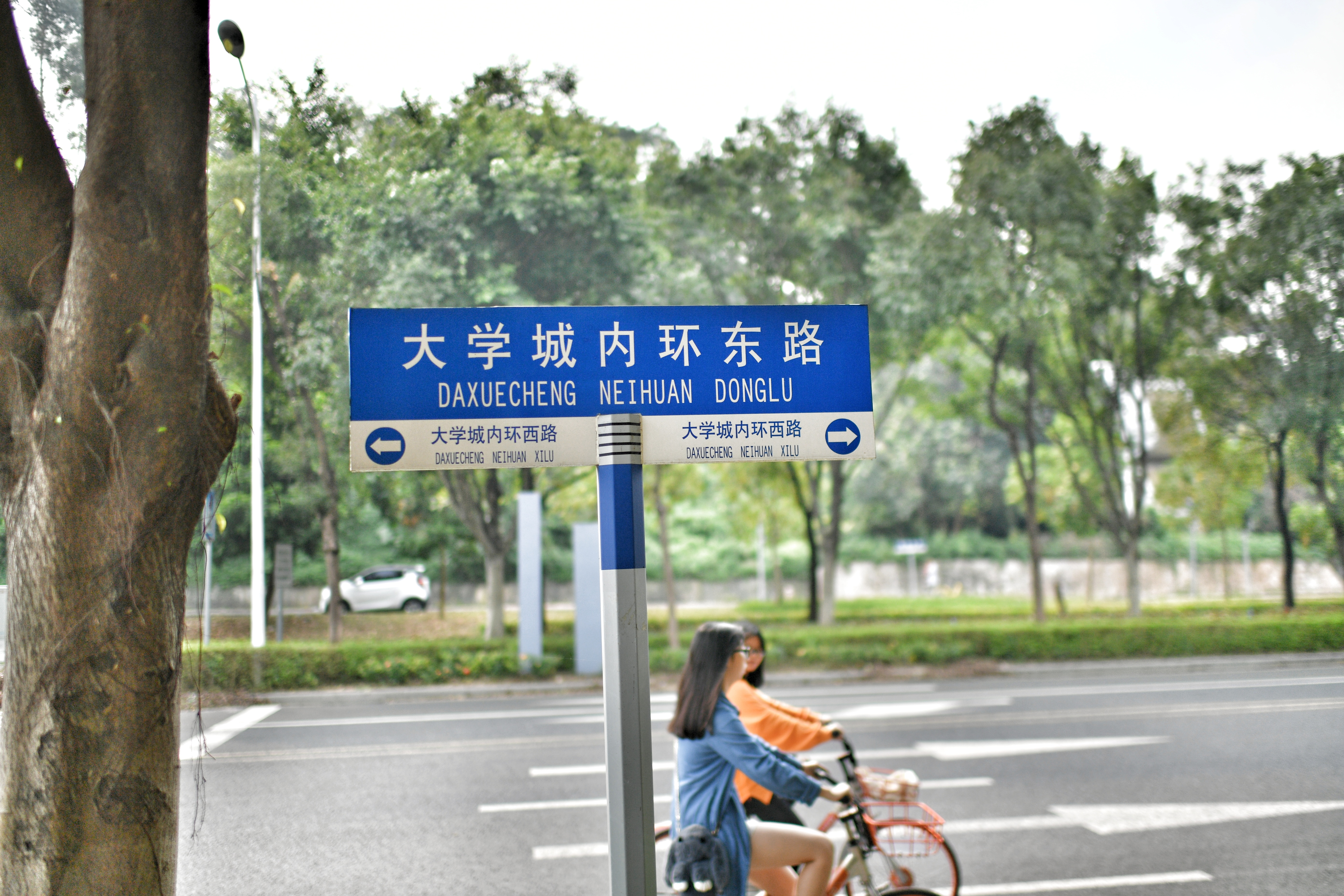 HEMC Inner Loop E Road